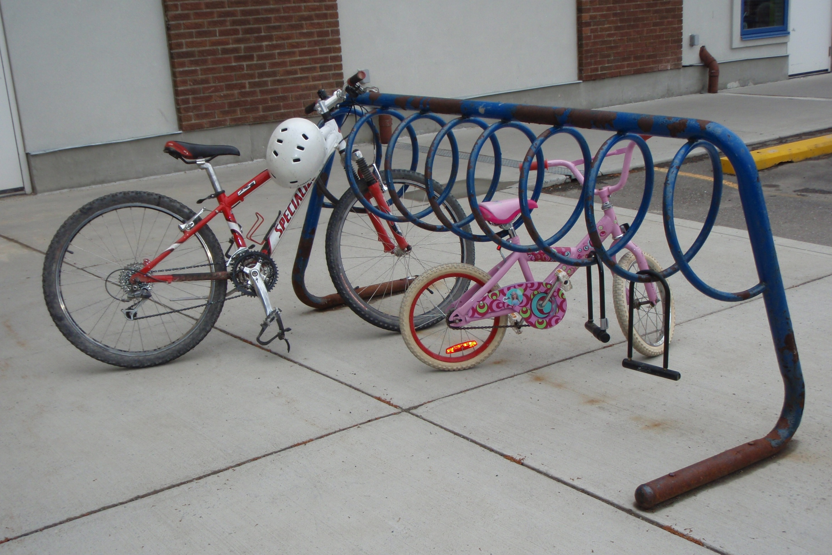 A bike rack situated outside of the Calgary Winter Club, Calgary, Alberta.